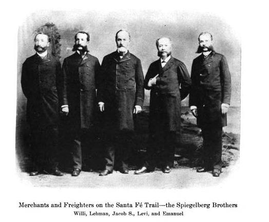 Spiegelberg brothers, merchants & freighters: NM & Santa Fe Trail